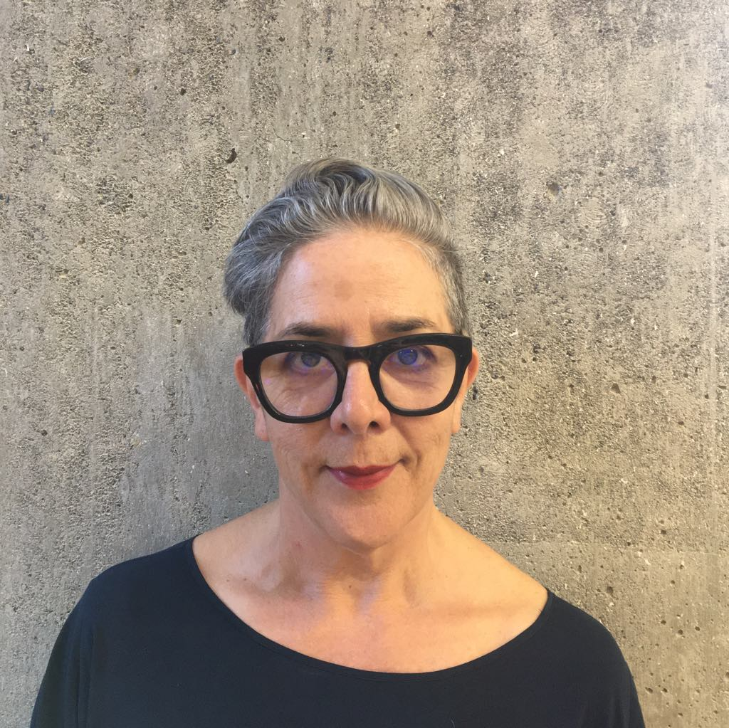 Huhana Smith taken CoCA Massey University